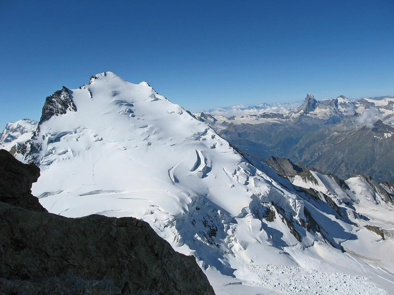 Dom, Pennine Alps (with Matterhorn visible in the distance)